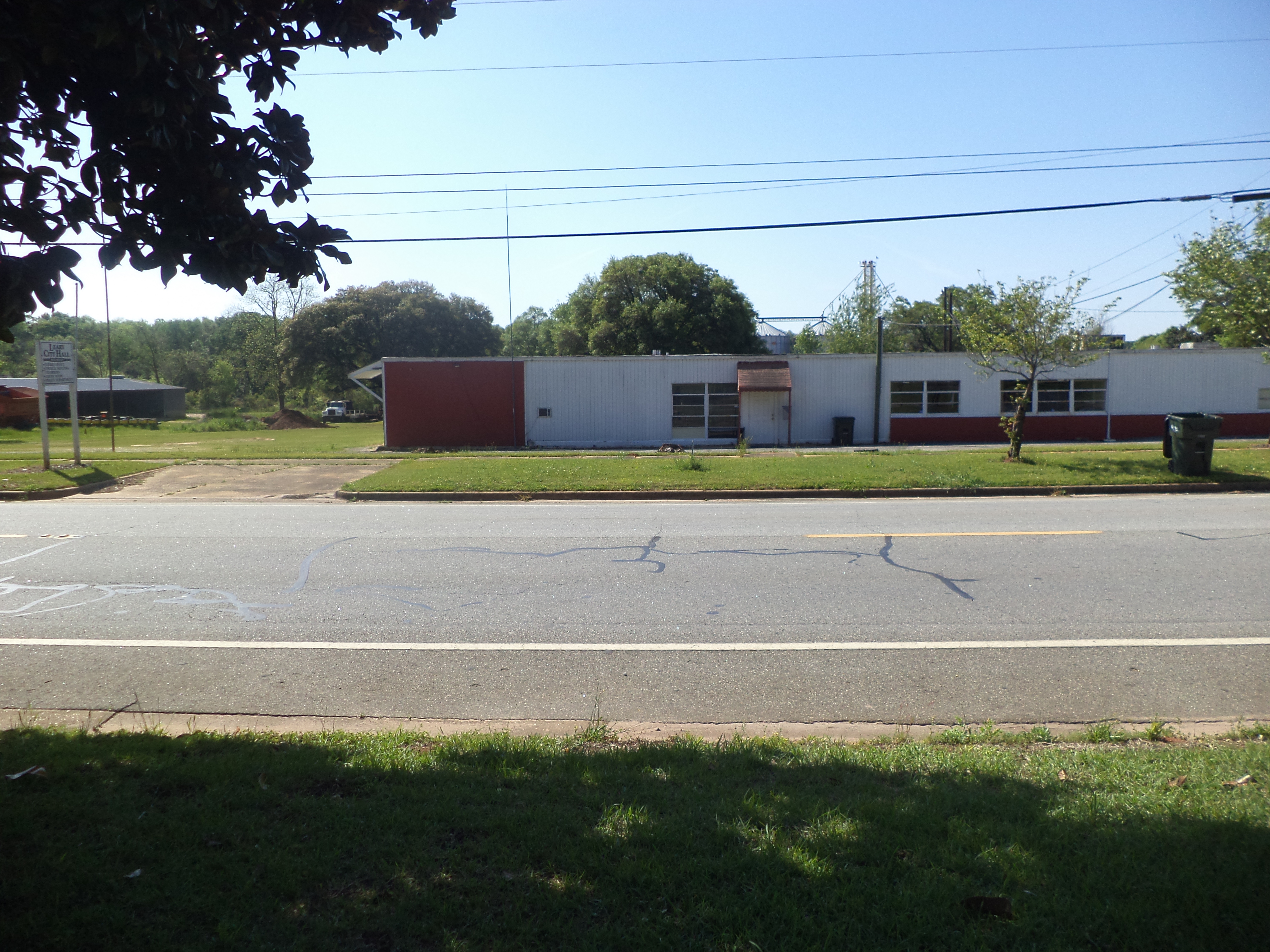 Leary City Hall, 39292 Mercer Ave, Leary, Calhoun County, Georgia. Former school building?